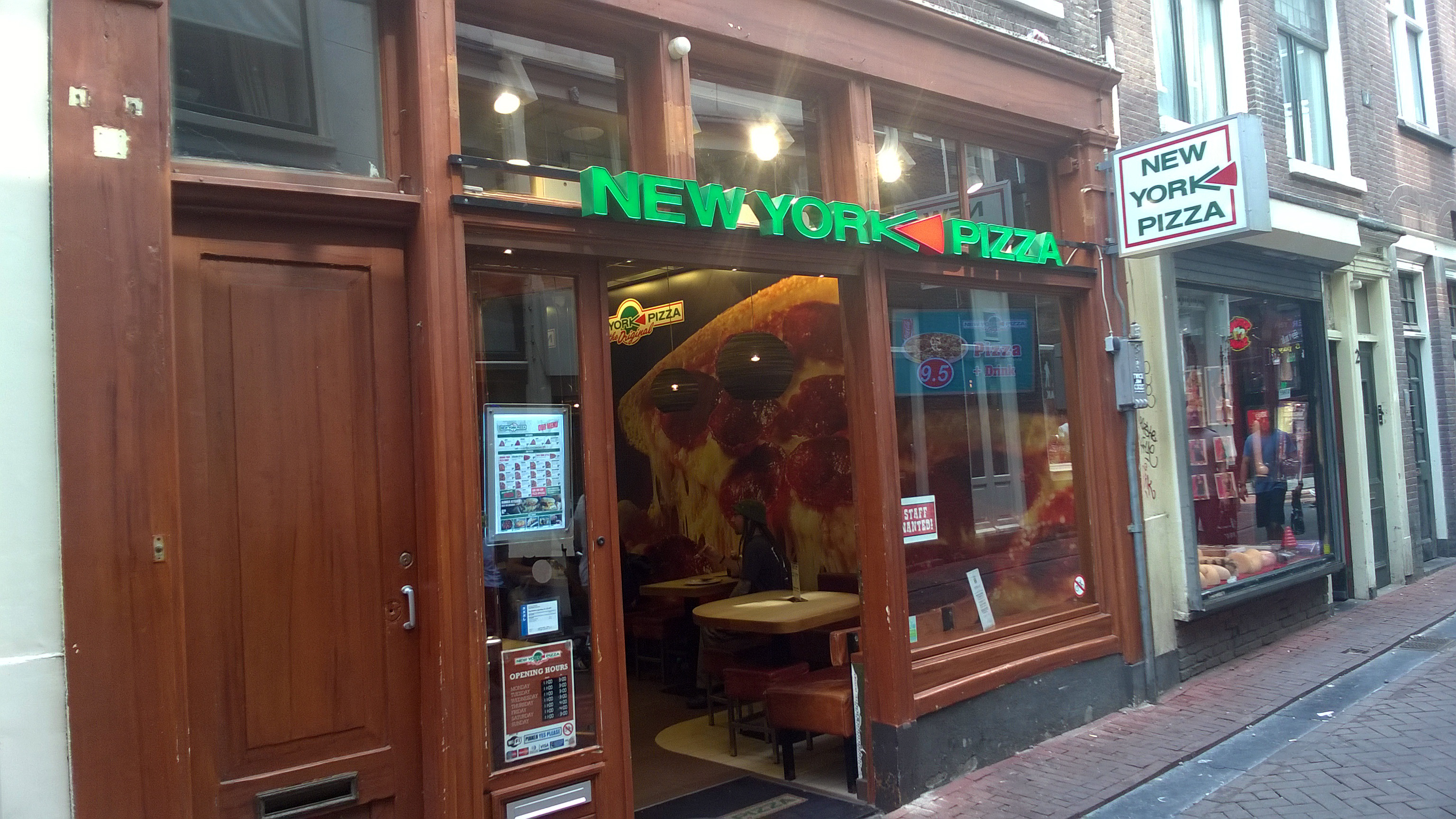 A local New York Pizza pizzeria in the city of Amsterdam.